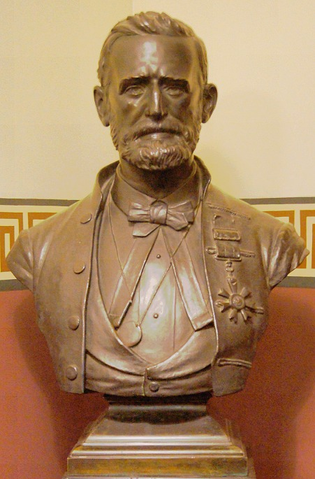 Bronze Bust of Mr. L. A. Bernays held at Queensland Parliament by sculptor James Laurence Watts